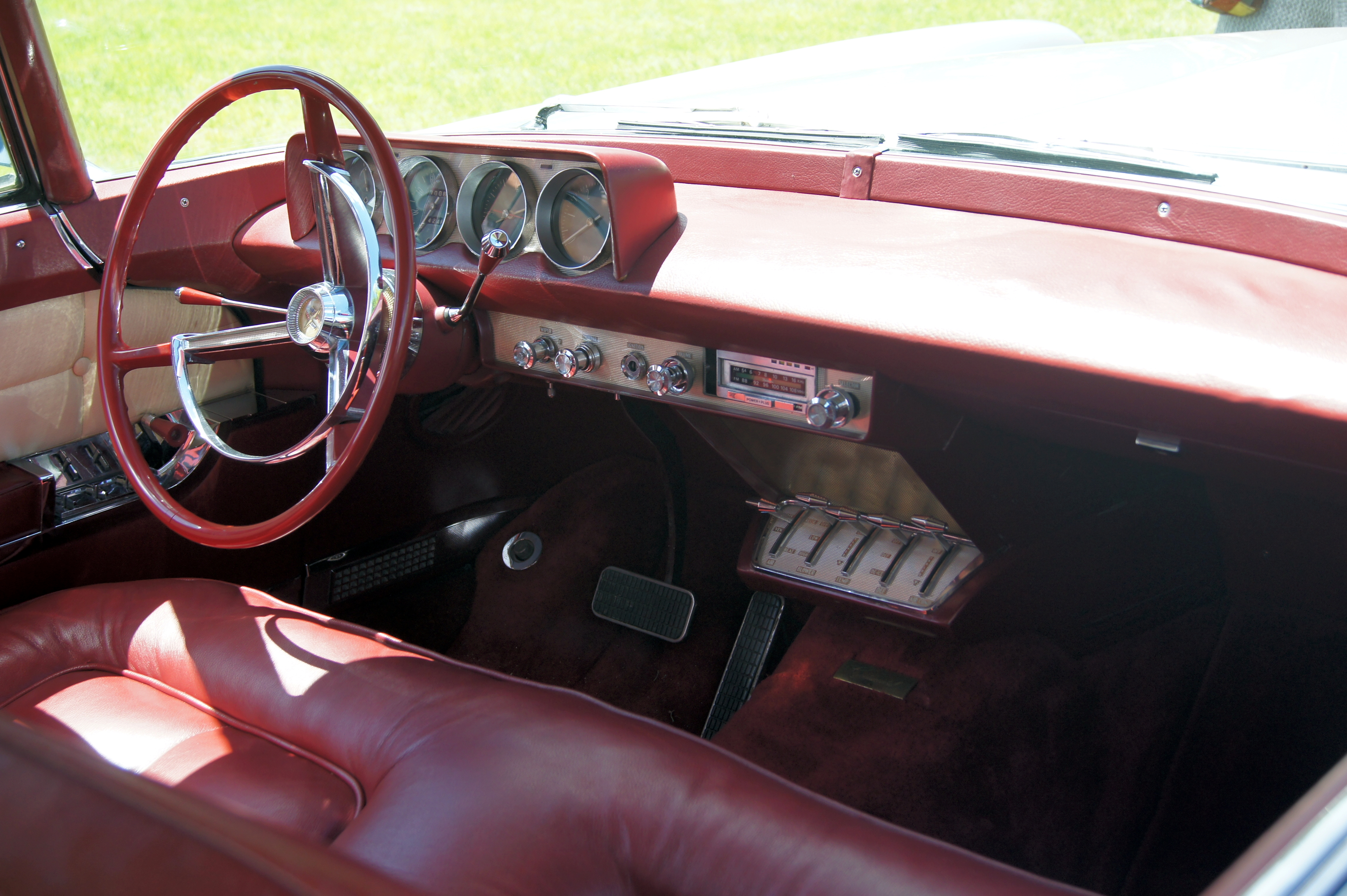 Inaugural 10,000 Lakes Concours d'Elegance to Benefit Courage Center Foundation June 2, 2013 Excelsior Commons Excelsior Minnesota Thousands of car pictures at the link below: Inaugural 10,000 Lakes Concours d'Elegance to Benefit Courage Center Foundation June 2, 2013 Excelsior Commons Excelsior Minnesota Thousands of car pictures at the link below